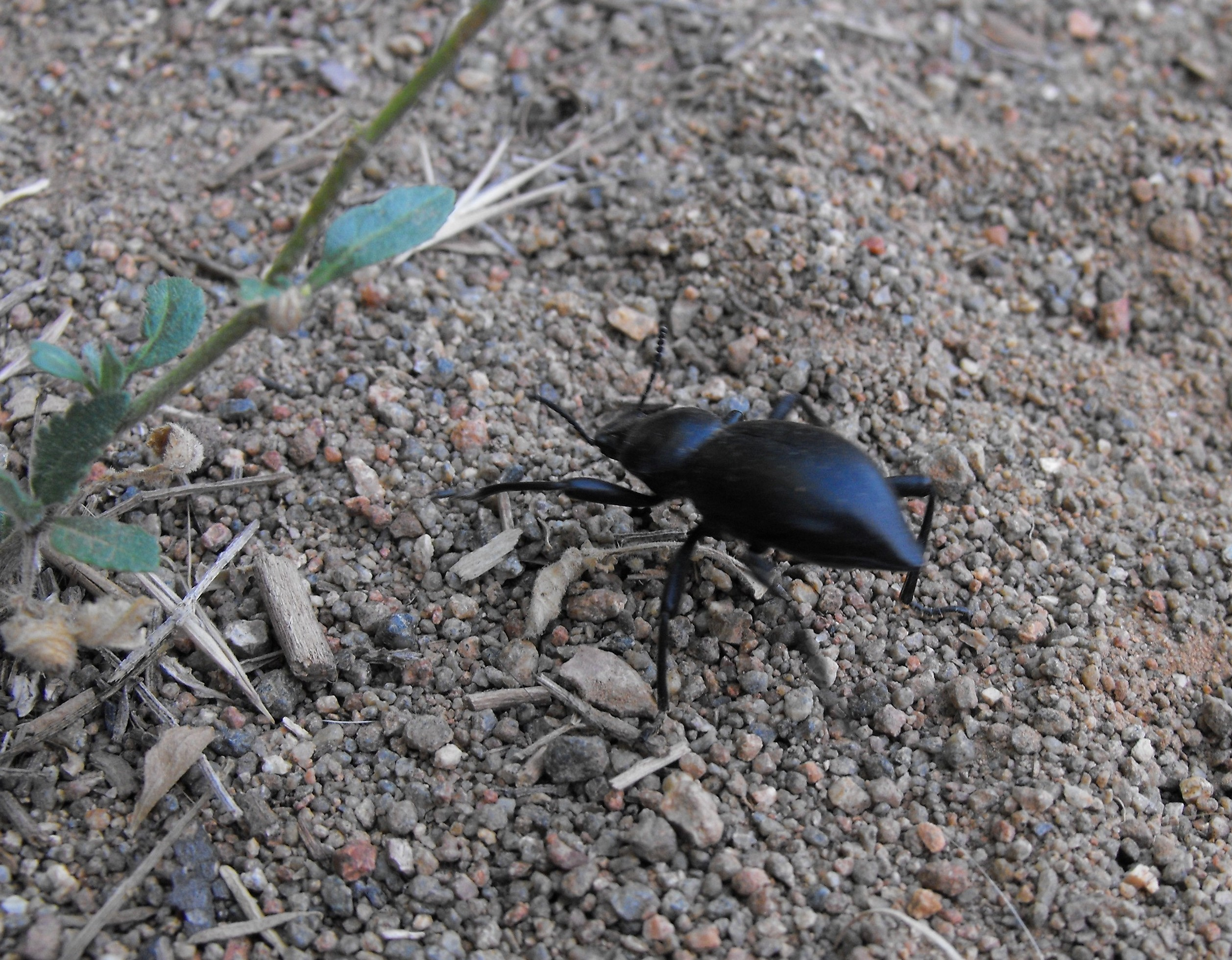 A pinacate beetle (darkling beetle), I think of genus Eleodes, at Mission Trails Regional Park, San Diego, California, USA